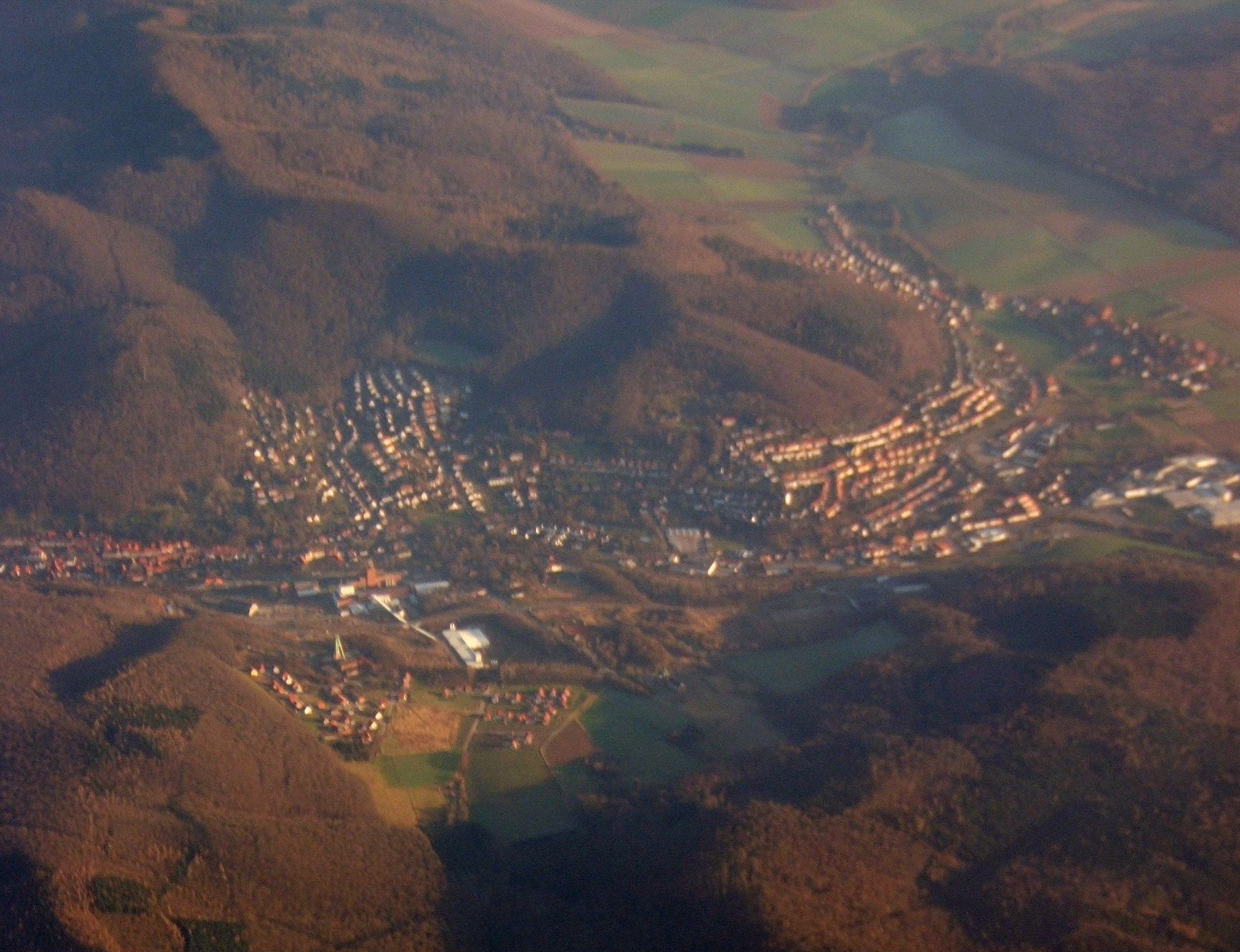 Aerial view of Bad Salzdetfurth, Hildesheim, Lower Saxony, Germany